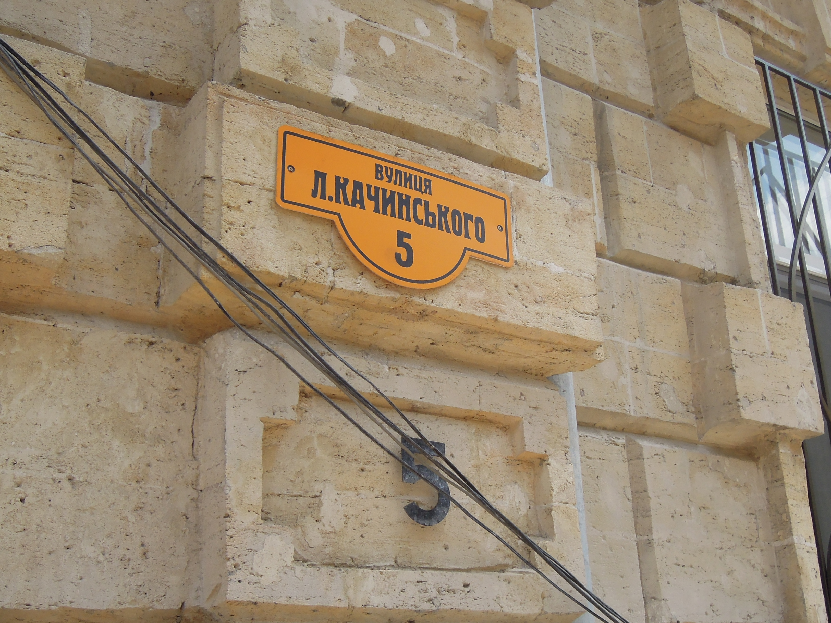 Lech Kaczyński street in Odessa